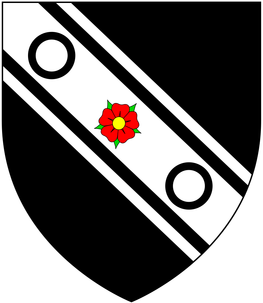 Arms of Conway, Earl of Conway: Sable, on a bend cotised argent a rose gules between two annulets of the first (Debrett's Peerage, 1968, p.607, as borne by Seymour, Marquess of Hertford). Also, with cotises ermine, arms of Rowley-Conwy, Baron Langford (Peerage of Ireland): Sable, on a bend argent cotised ermine a rose gules barbed and seeded proper between two annulets of the first (Kidd, Charles, Debrett's peerage & Baronetage 2015 Edition, London, 2015, p.P720)